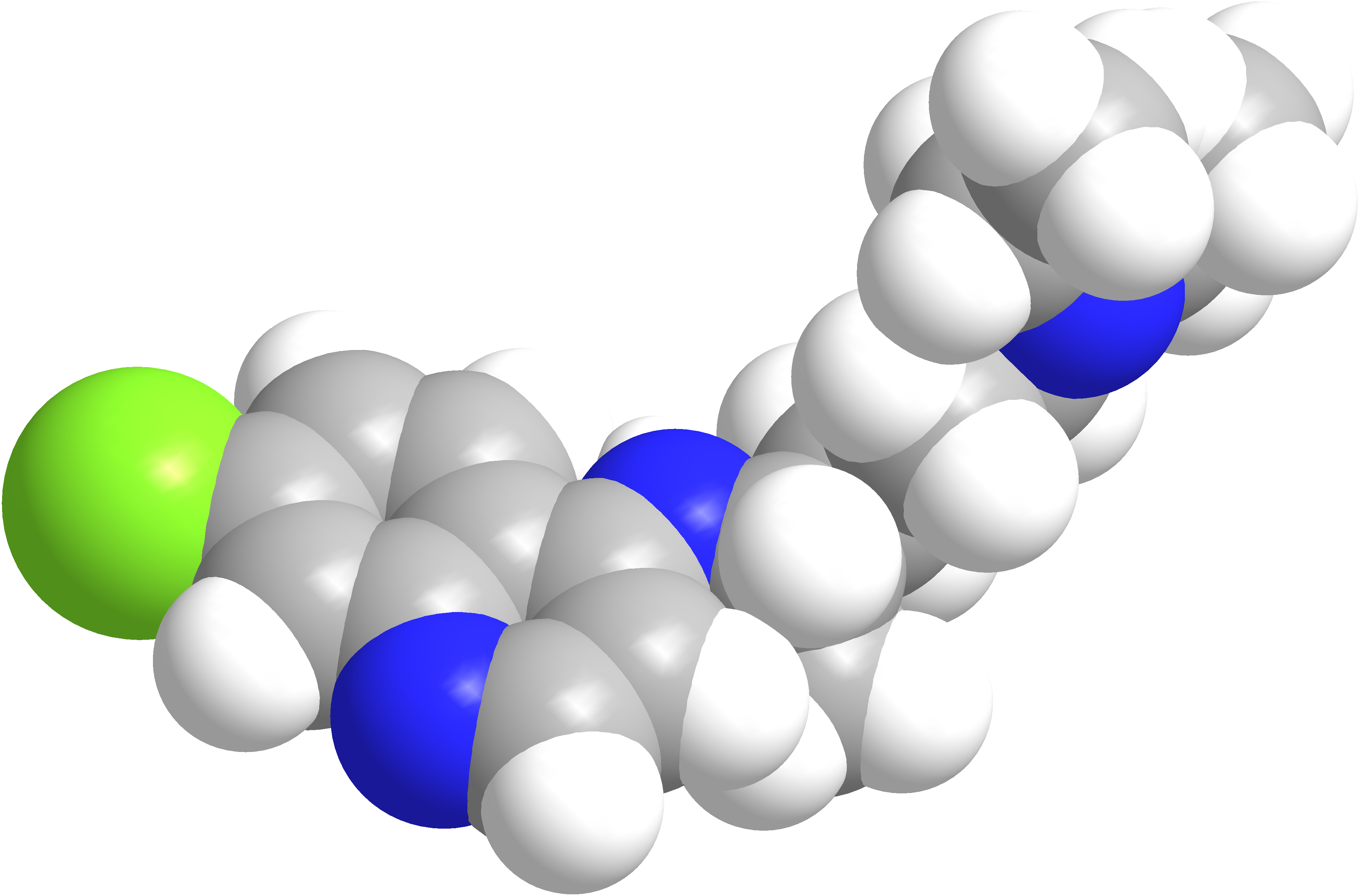 Chloroquine 3D structure.